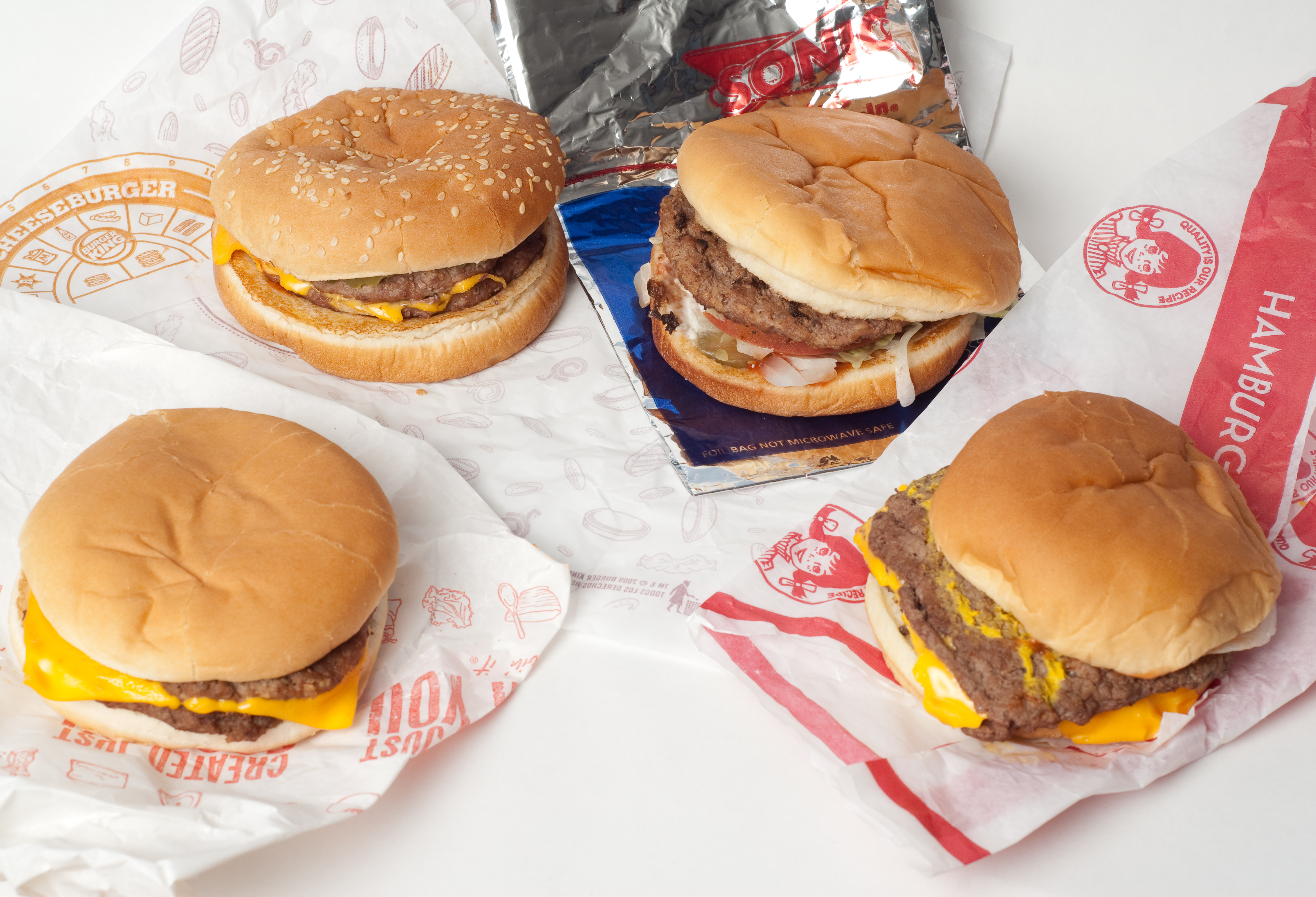 A selection of value-menu hamburgers from American fast food chains. Clockwise from left to right: McDonald's McDouble, Burger King Buck Double, Sonic Drive-In Jr. Deluxe Burger, Wendy's Double Stack.